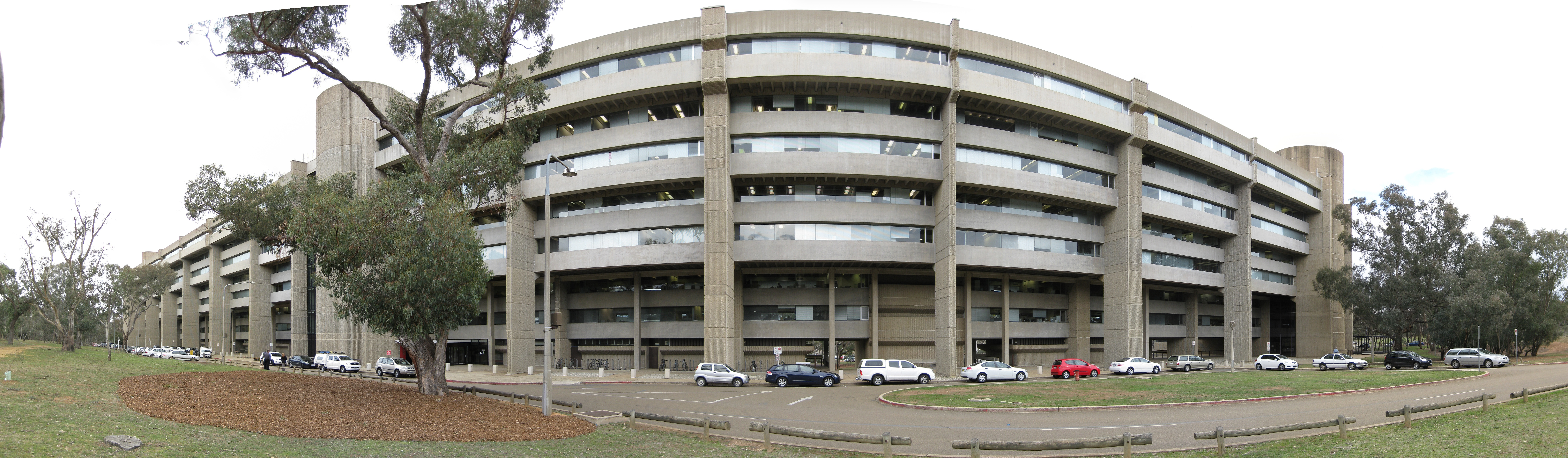 Panoramic shot of Campbell park offices from Northcott drive, Canberra ACT, Australia